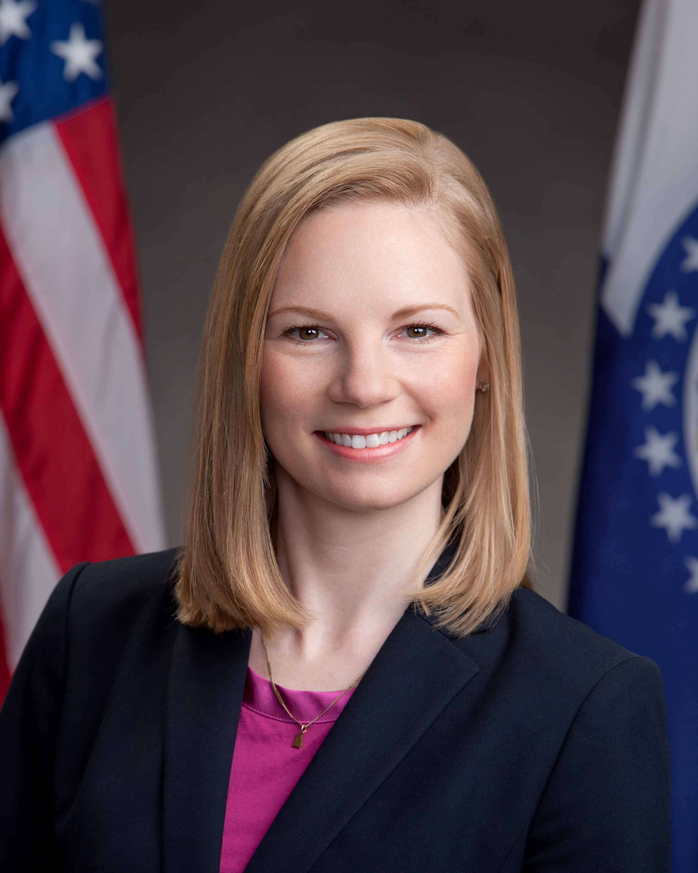 Portrait